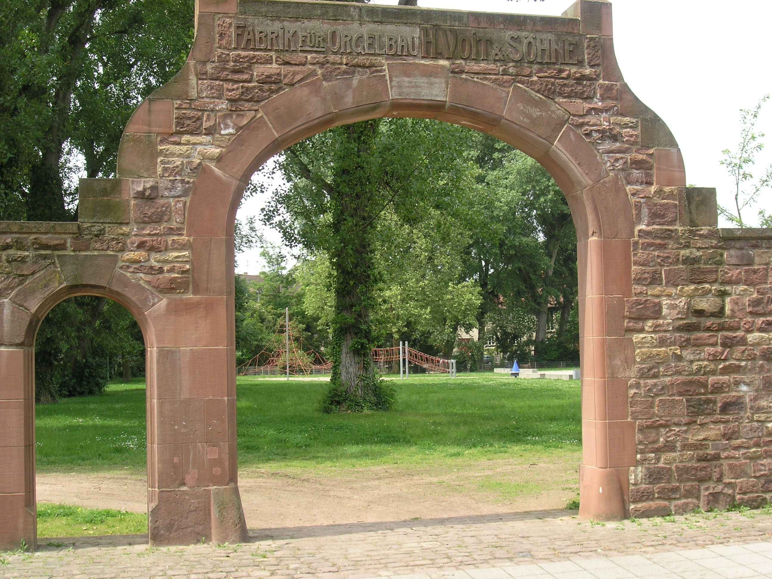 Former organ builder H. Veit in Karlsruhe-Durlach